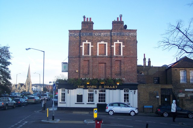 The Hare and Billet Public House, Blackheath Vale At the junction of Hare and Billet Road (on the left) and Eliot Cottages (on the right). All Saints Church is on the left in the background.